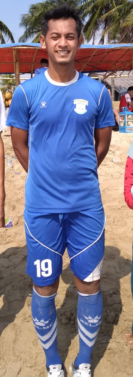 Yongki fitness training with Perserang in anyer beach